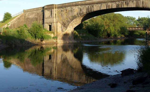 Over Bridge